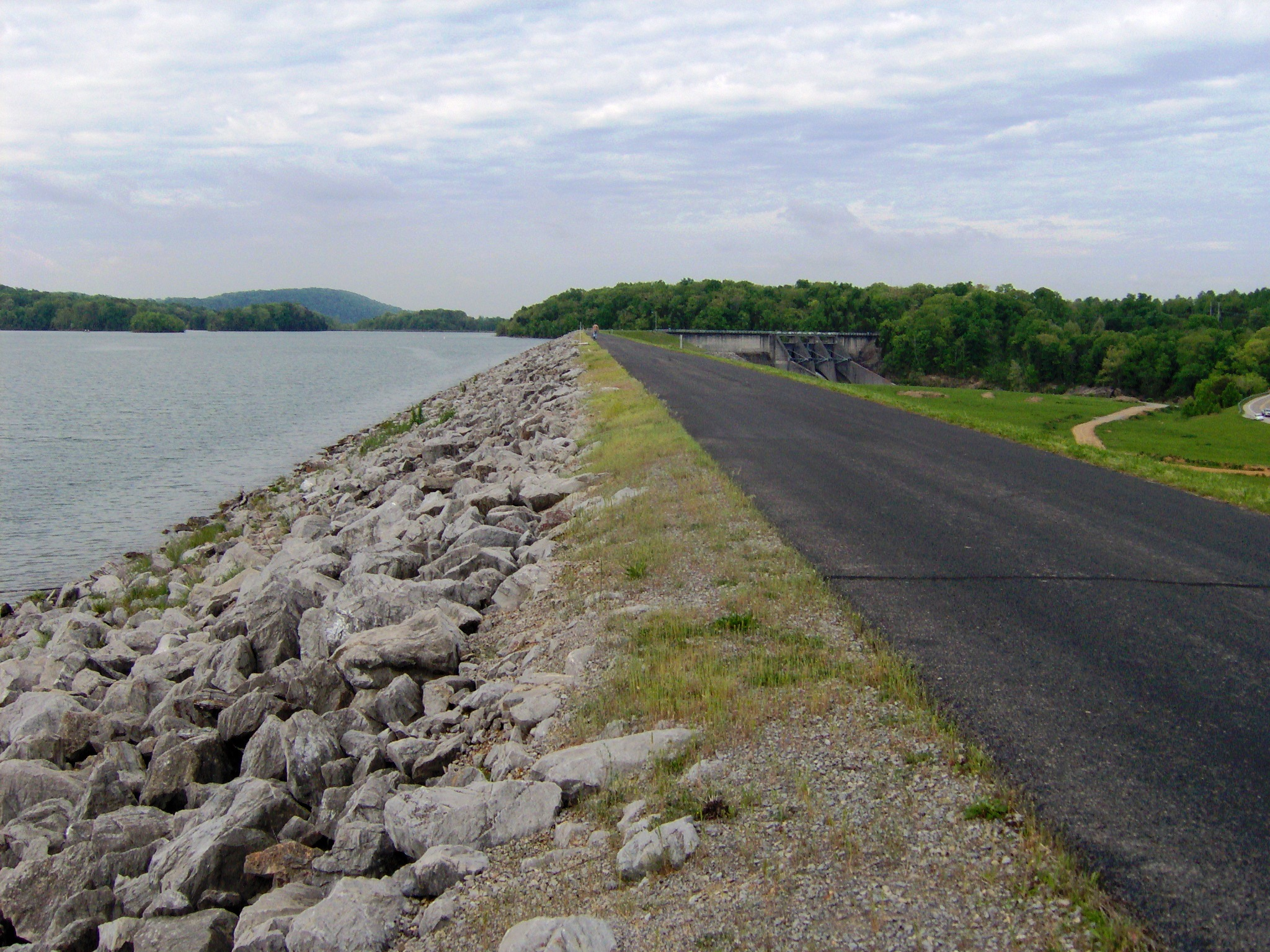 Paved walkway traversing the earthen dike along the south shore of Bussell Island in Loudon County, Tennessee, USA. Tellico Dam is in the distance. The dike helps contain Tellico Lake.